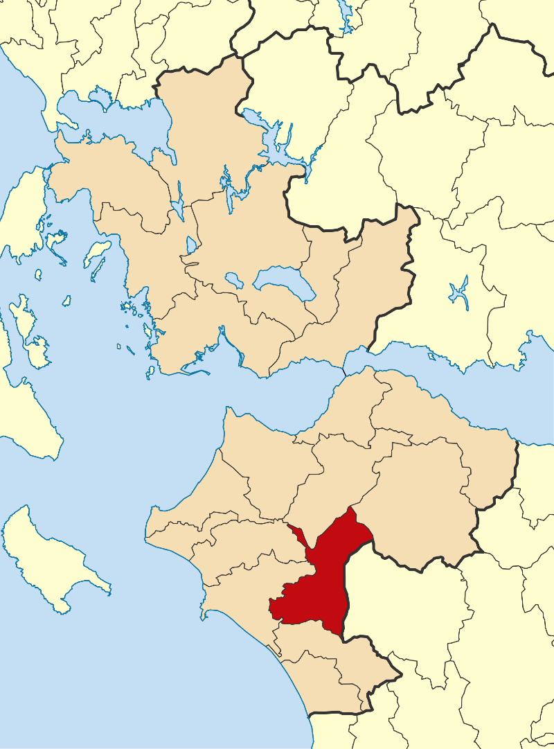 Locator map for Archea Olymbia municipality in Greek region Western Greece (2011)